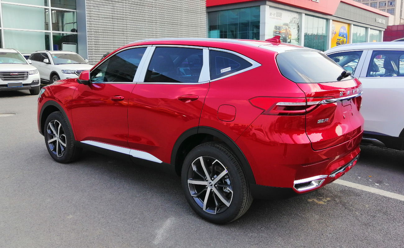 Haval F7 photographed in Hefei, Anhui province, China.